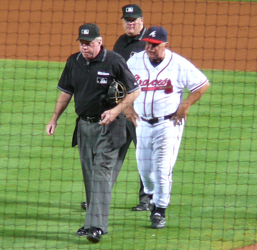 If used somewhere other than Wikipedia, Nelson, by name. 04:33, 20 September 2009 . . Chrisjnelson . . 848×826 (655 KB)